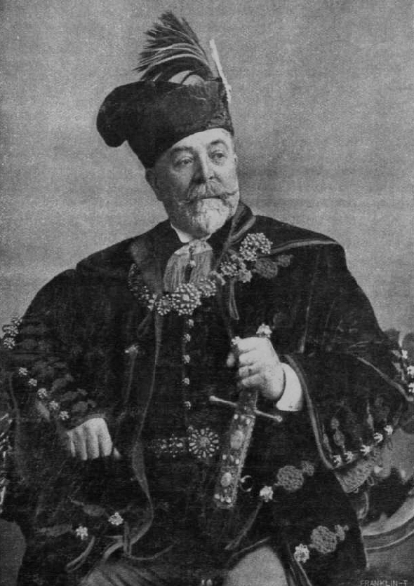 Photo of Gábor Ugron senior